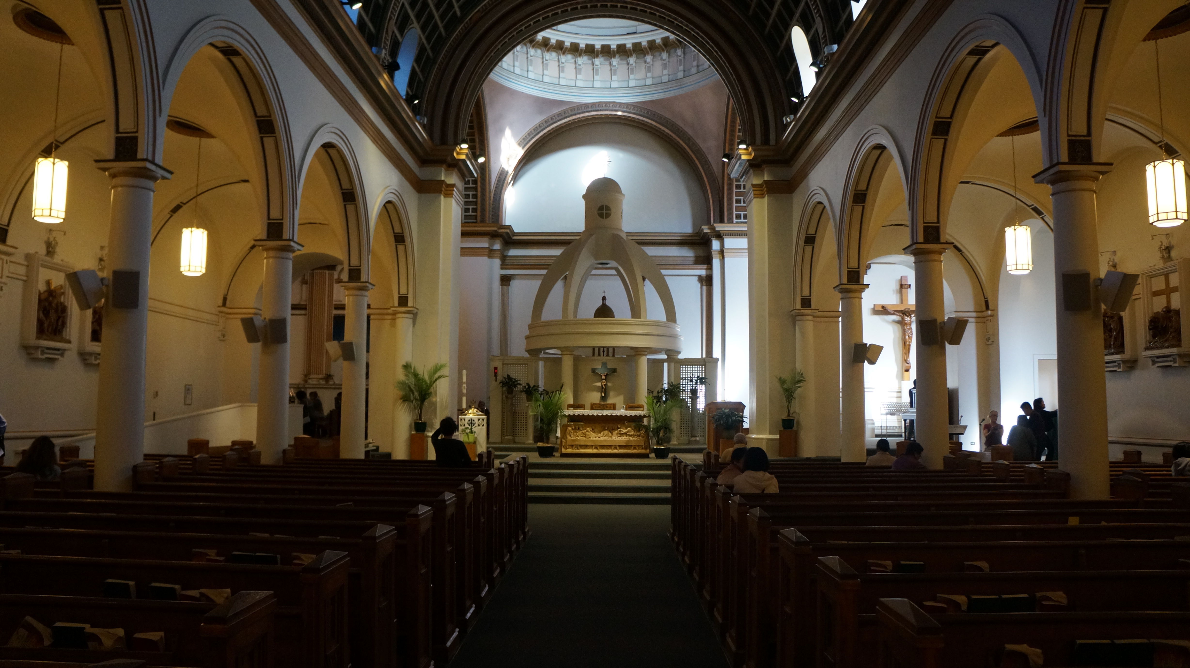 Interior of Our Lady of Lourdes Church in Toronto, Ontario